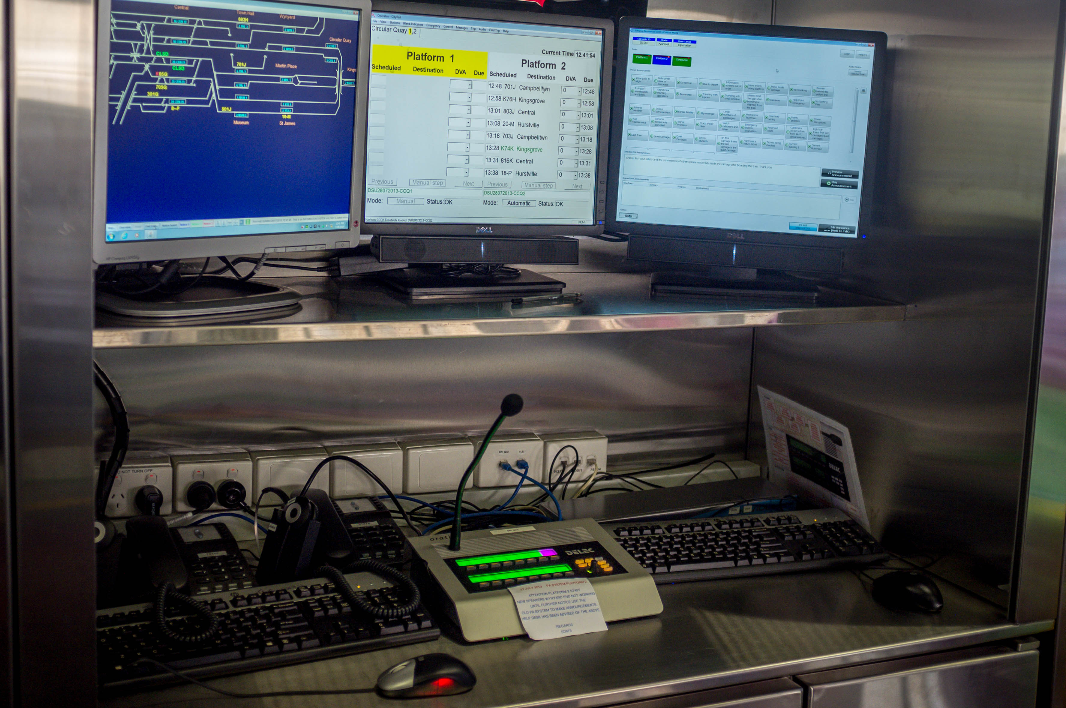 Sydney Trains Station Console at Circular Quay Staion